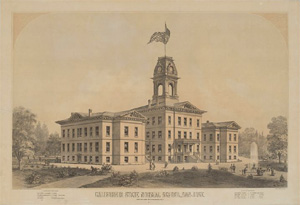 This is a public domain image of a lithograph of the first California State Normal School building in San Jose, California. The lithograph dates back to the 1880s.